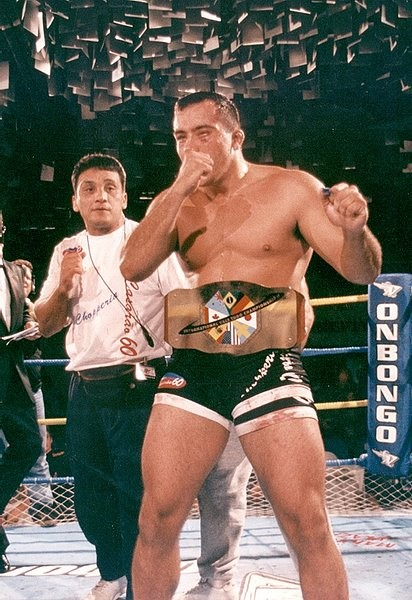 Artur Mariano: campeão do IVC II